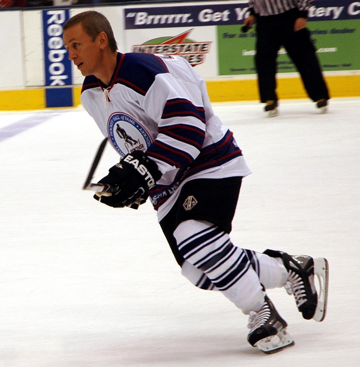 Igor Larionov played with the All-Star Legends 2008 in Toronto